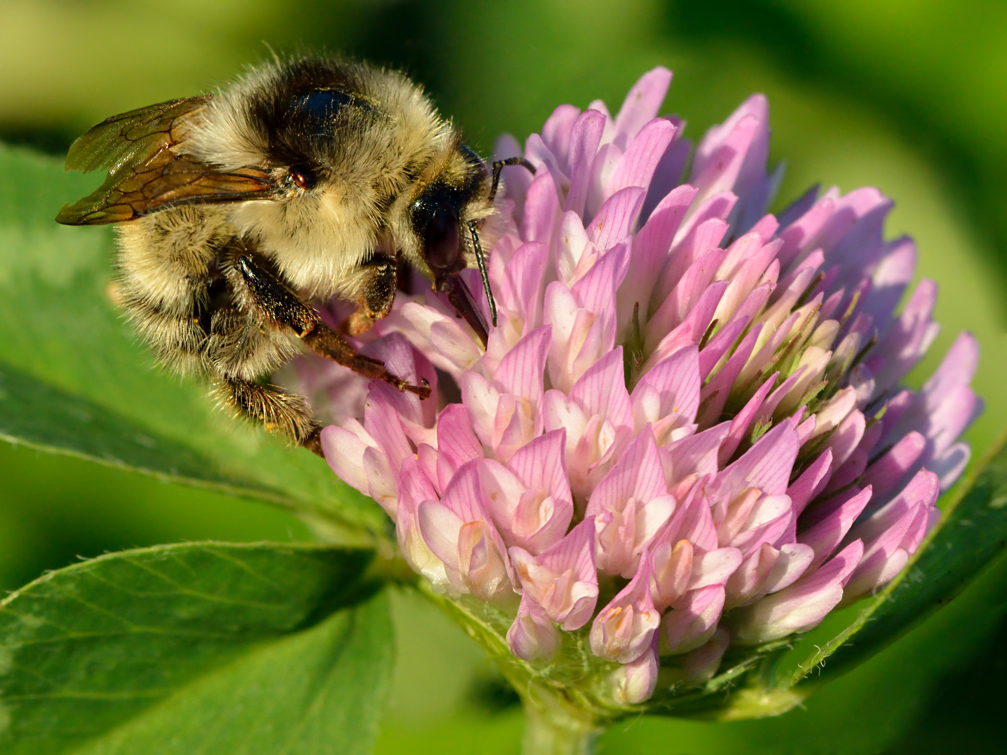 Sand bumblebee (Bombus veteranus) on the red clover (Trifolium pratense). Keila, Northwestern Estonia.